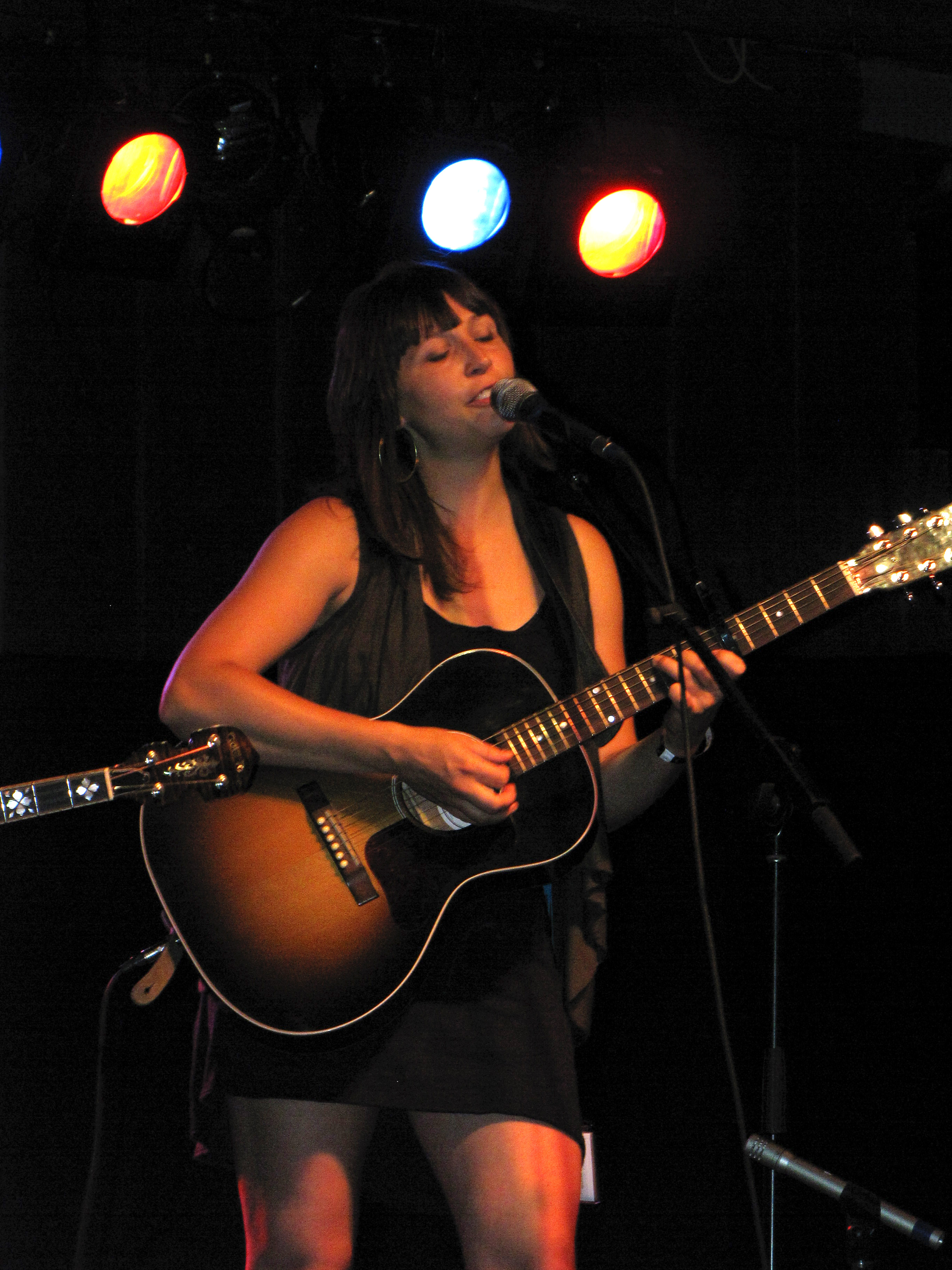 Carole Facal (aka Caraol) in concert at the 2010 Summerfolk Music & Crafts Festival